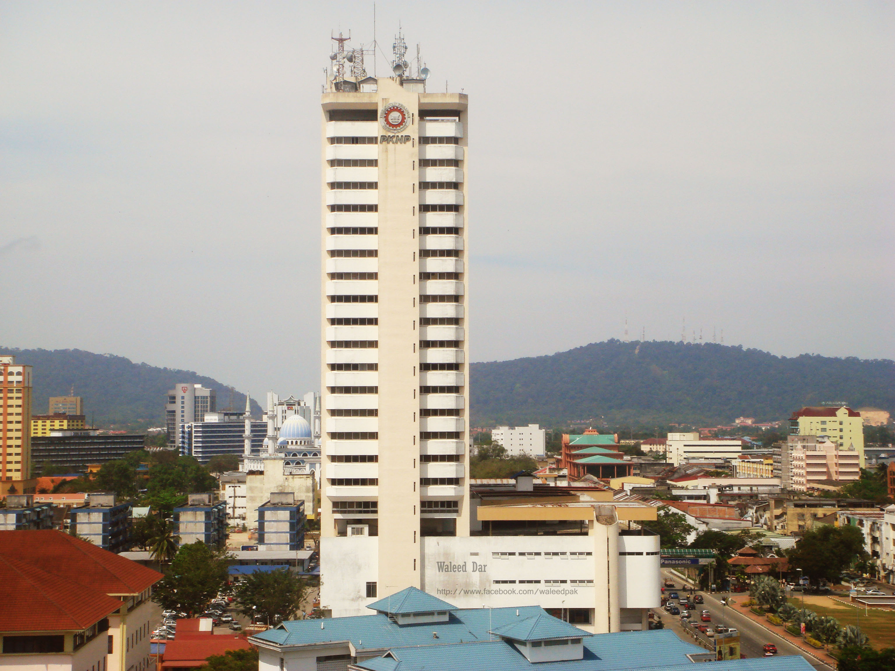 Kompleks Teruntum, Kuantan.